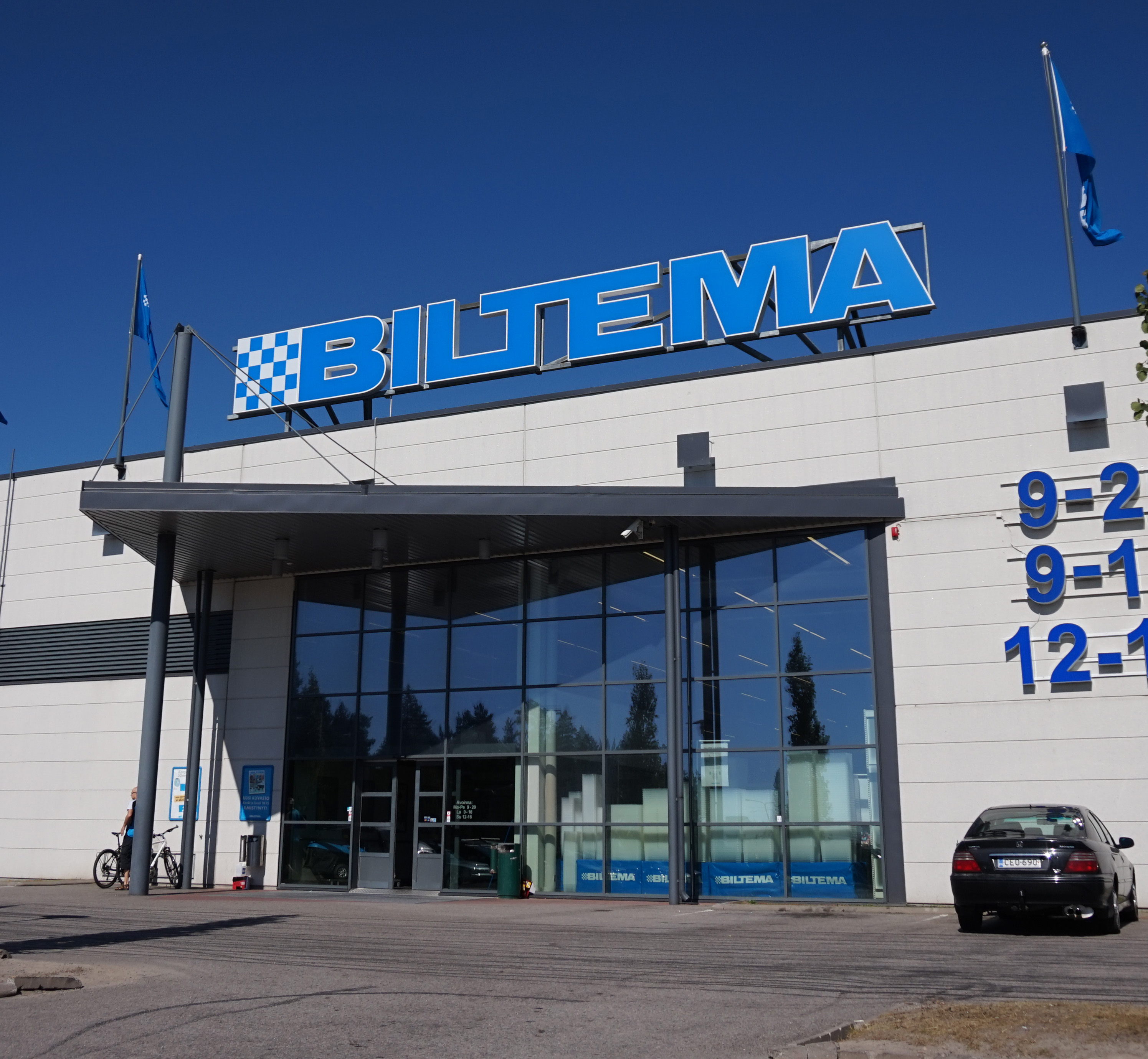 Biltema store in Jyväskylä.This photograph was taken with a Sony ILCE-5000